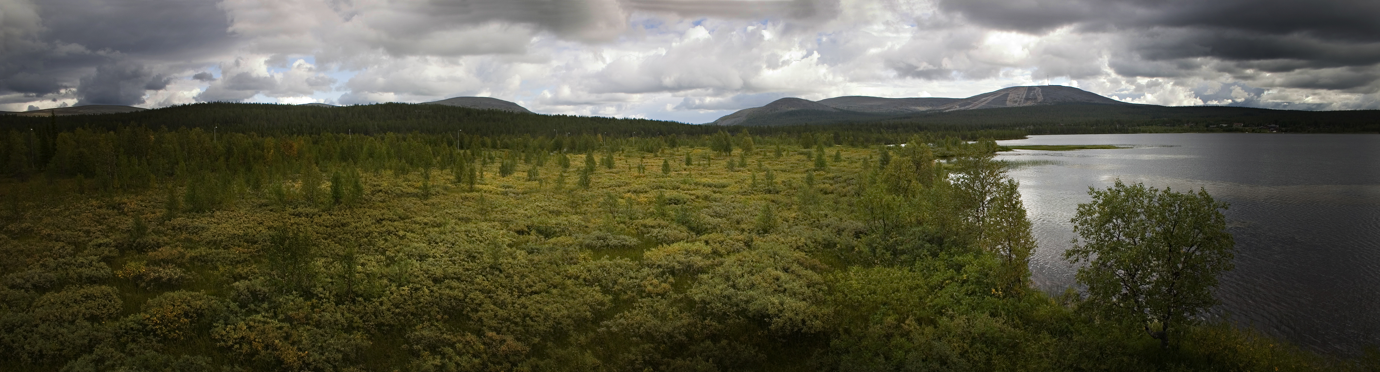 Picture has been taken in Ylläs, Finland.